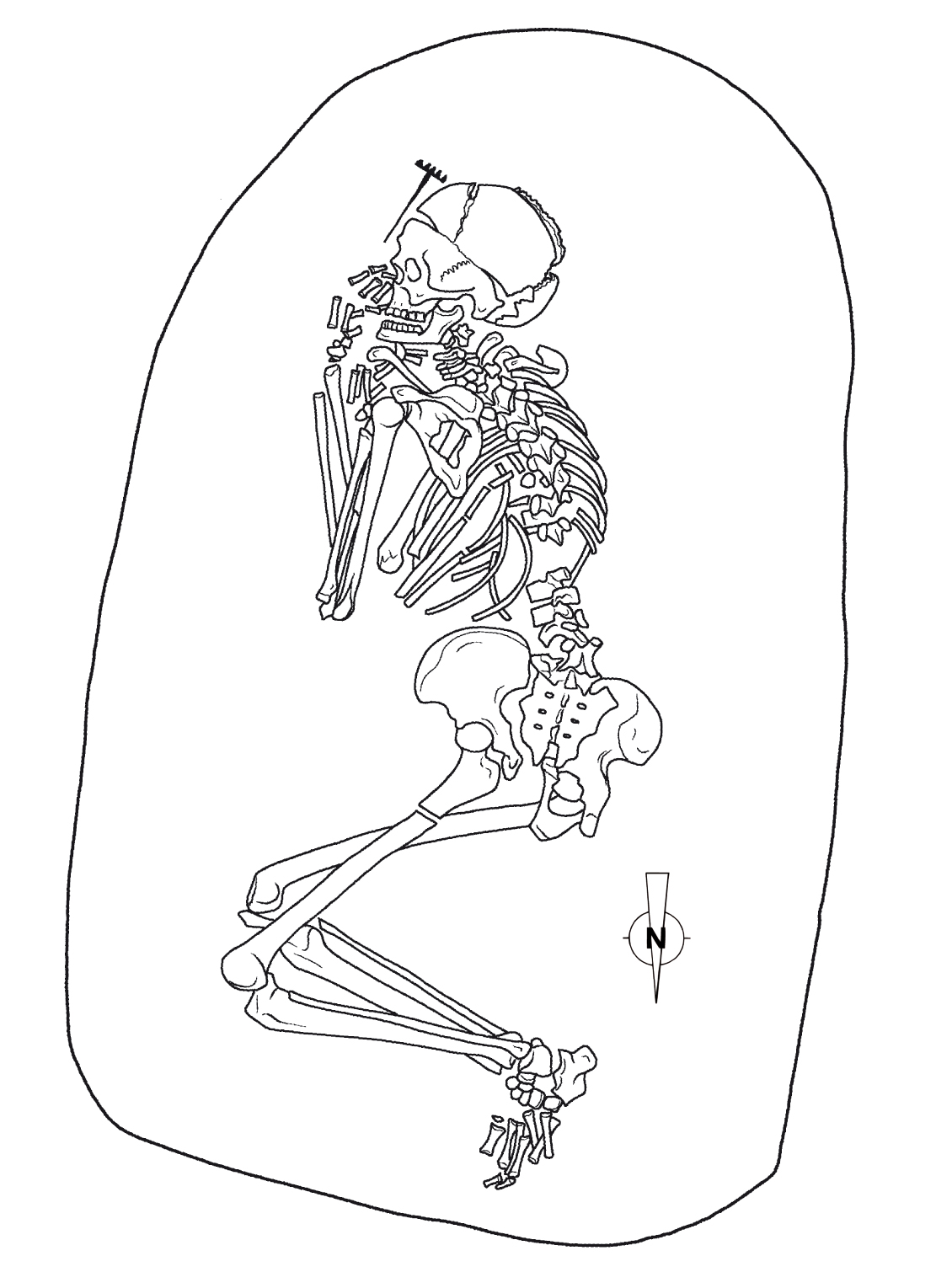 Grave 47 of the cemetery Franzhausen Swietelsky I (Lower Austria).